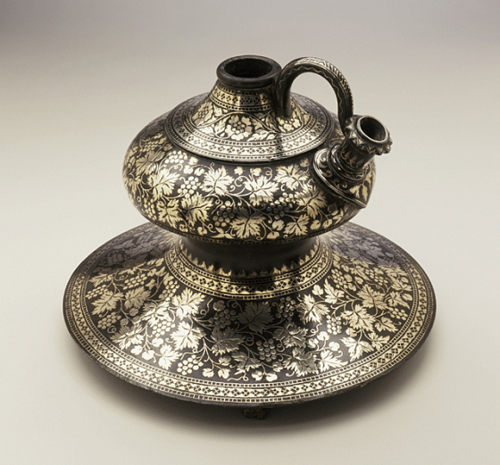 Water pipe base, engraved with Bidriware, Hyderabad, India. From 18th centure